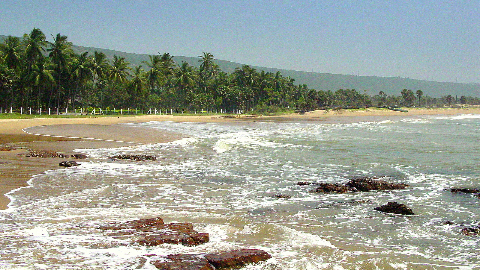 Yarada Beach view near Gangavaram, Visakhapatnam